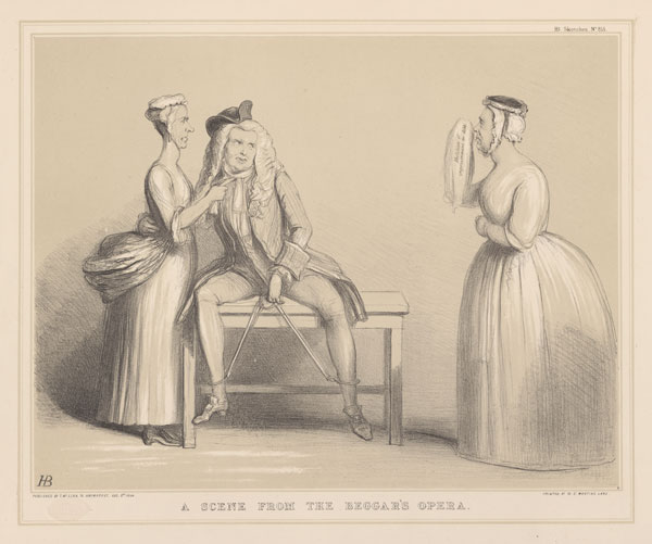 A SCENE FROM THE BEGGAR'S OPERA